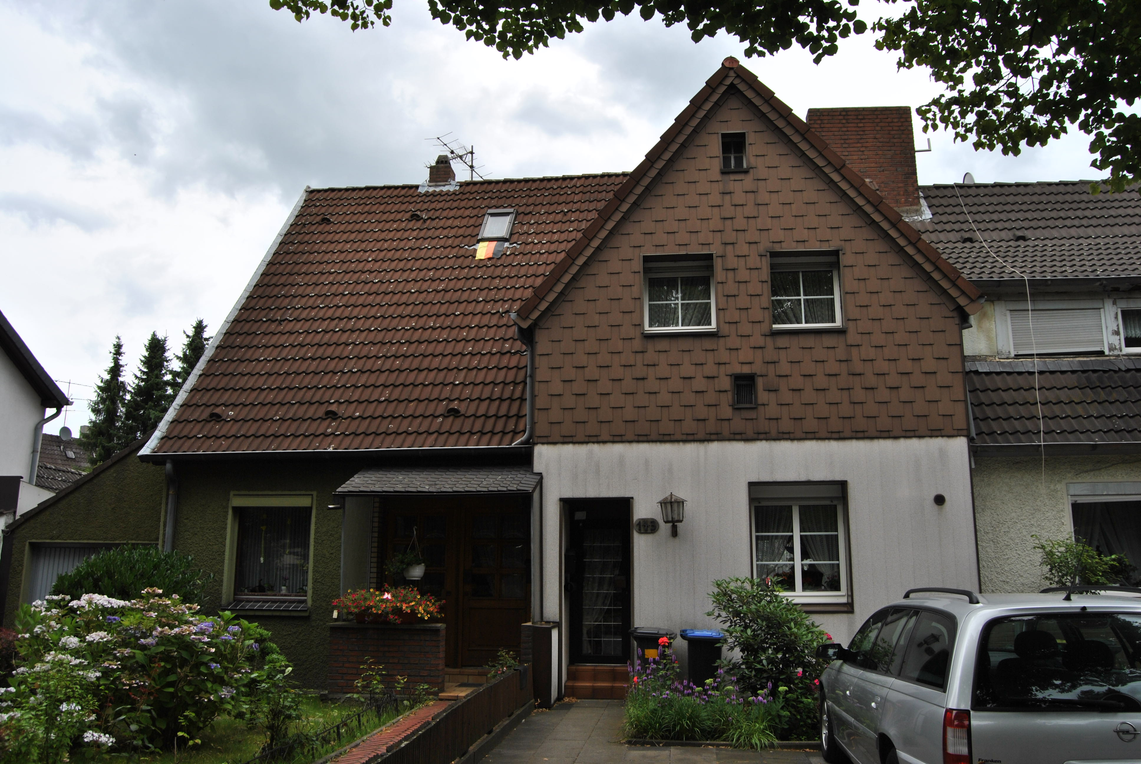 Duisburg (North Rhine-Westphalia, Germany) – borough Rheinhausen, district Hochemmerich – workers' settlement Margarethensiedlung – residential building This image shows a heritage building in Germany, located in the North Rhine-Westphalian city Duisburg (no. 84). This photograph was taken with a Nikon D3000